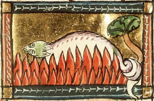 A salamander unharmed in the fire. Koninklijke Bibliotheek, KB, KA 16, Folio 126r